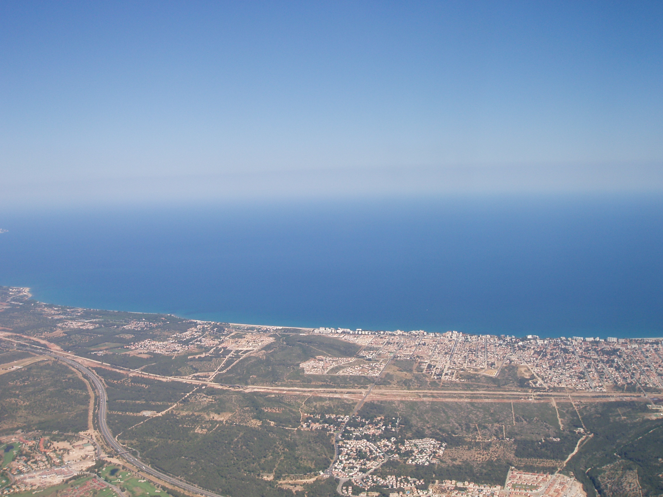 Mediterranean coast at Miami Platja, aerial view. Most of Miami Platja is at right, on the Mediterranean coast. The two main roads are the A-7 (Autovia del Mediterráneo) across centre, and the E-15/AP-7 (Autopista del Mediterráneo) at lower left. Catalonia, Spain.